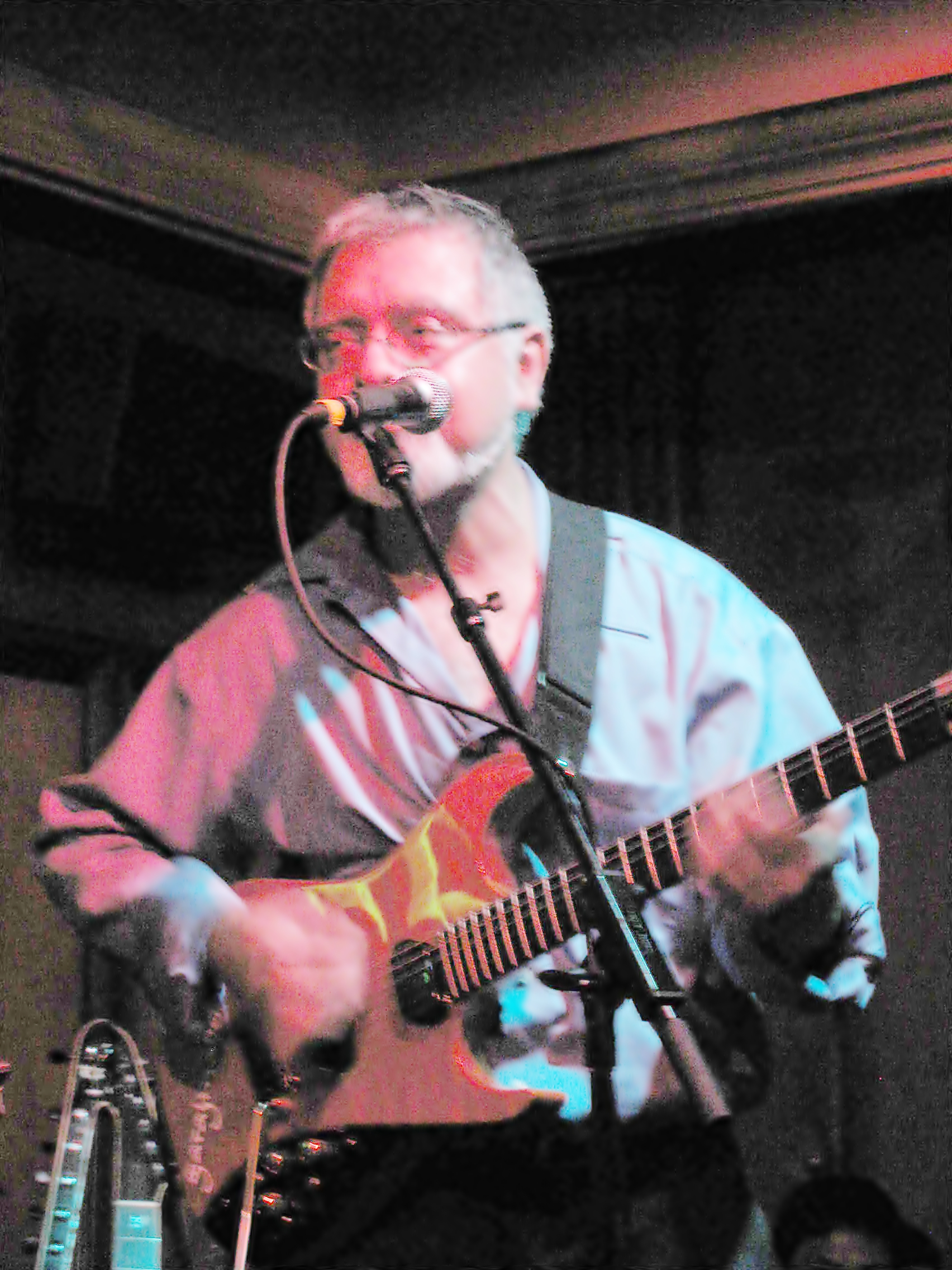 Fareed haque playing his amazing moog guitar for his Fusion Jazz band "Garaj Mahal" at Green Mill Jazz Club, Chicago